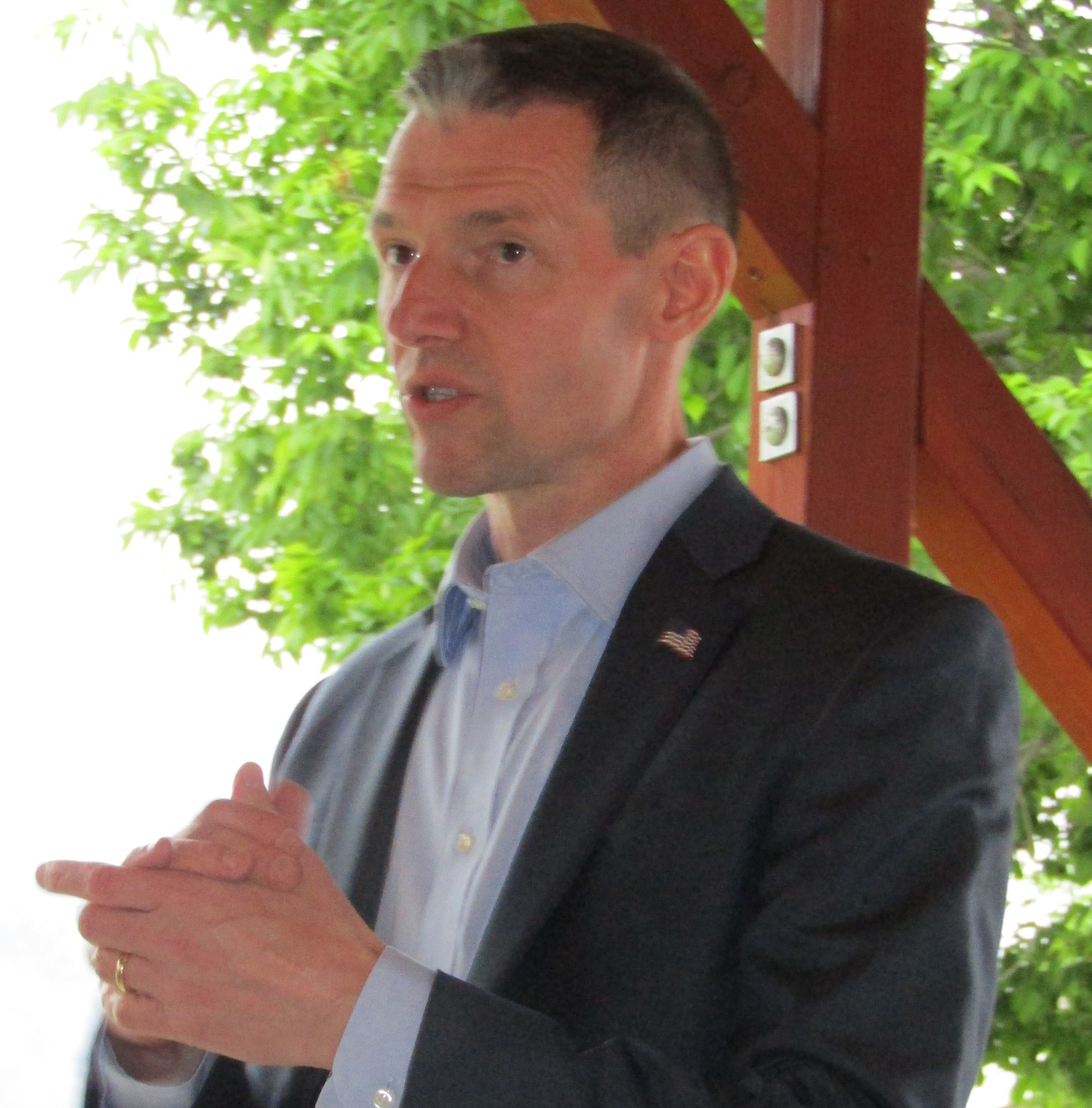 Mike Kennedy at a senatorial campaign event in Provo, Utah.